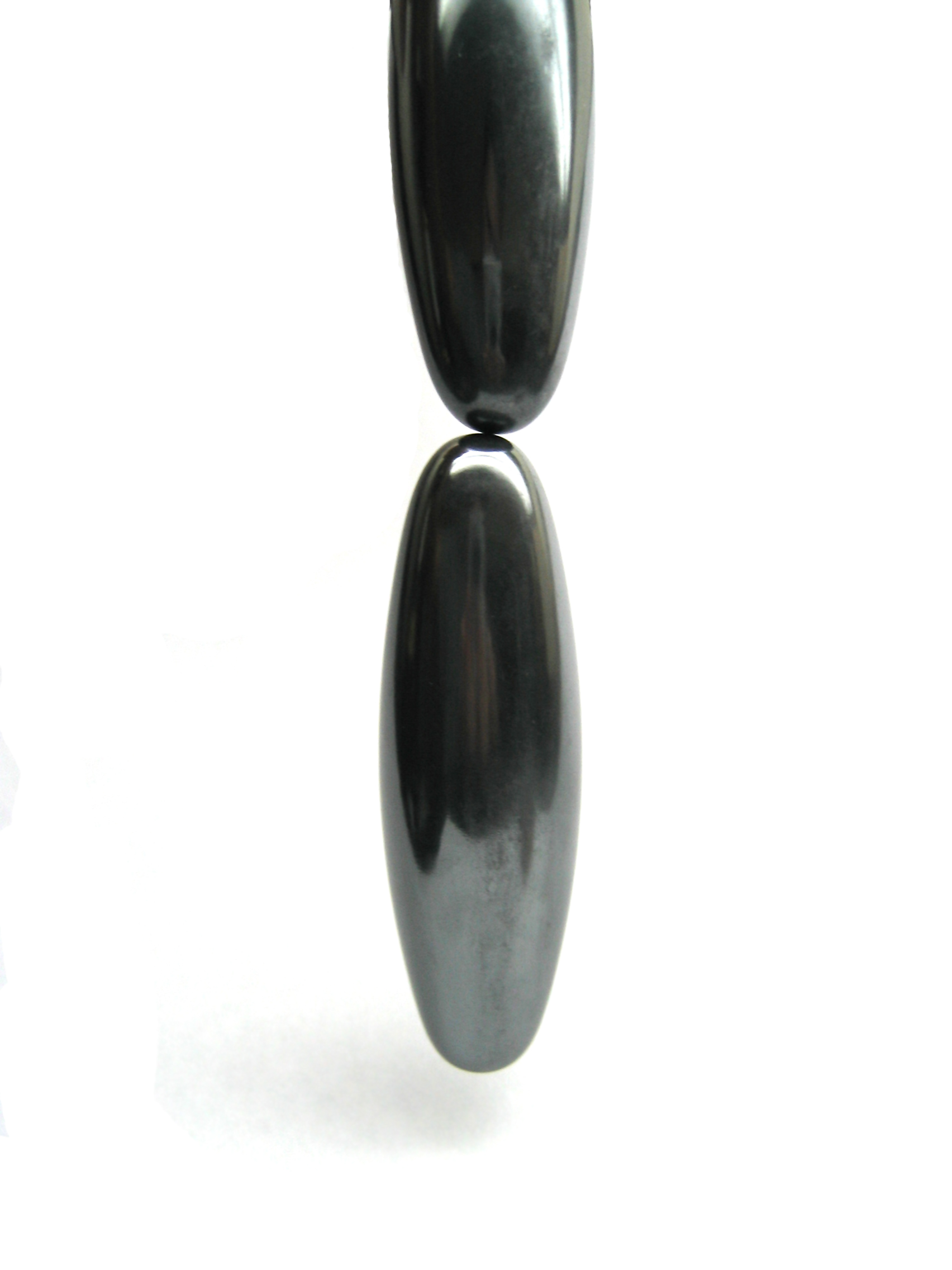 A macro showing the effects of magnetism using two magnets of an unknown type.